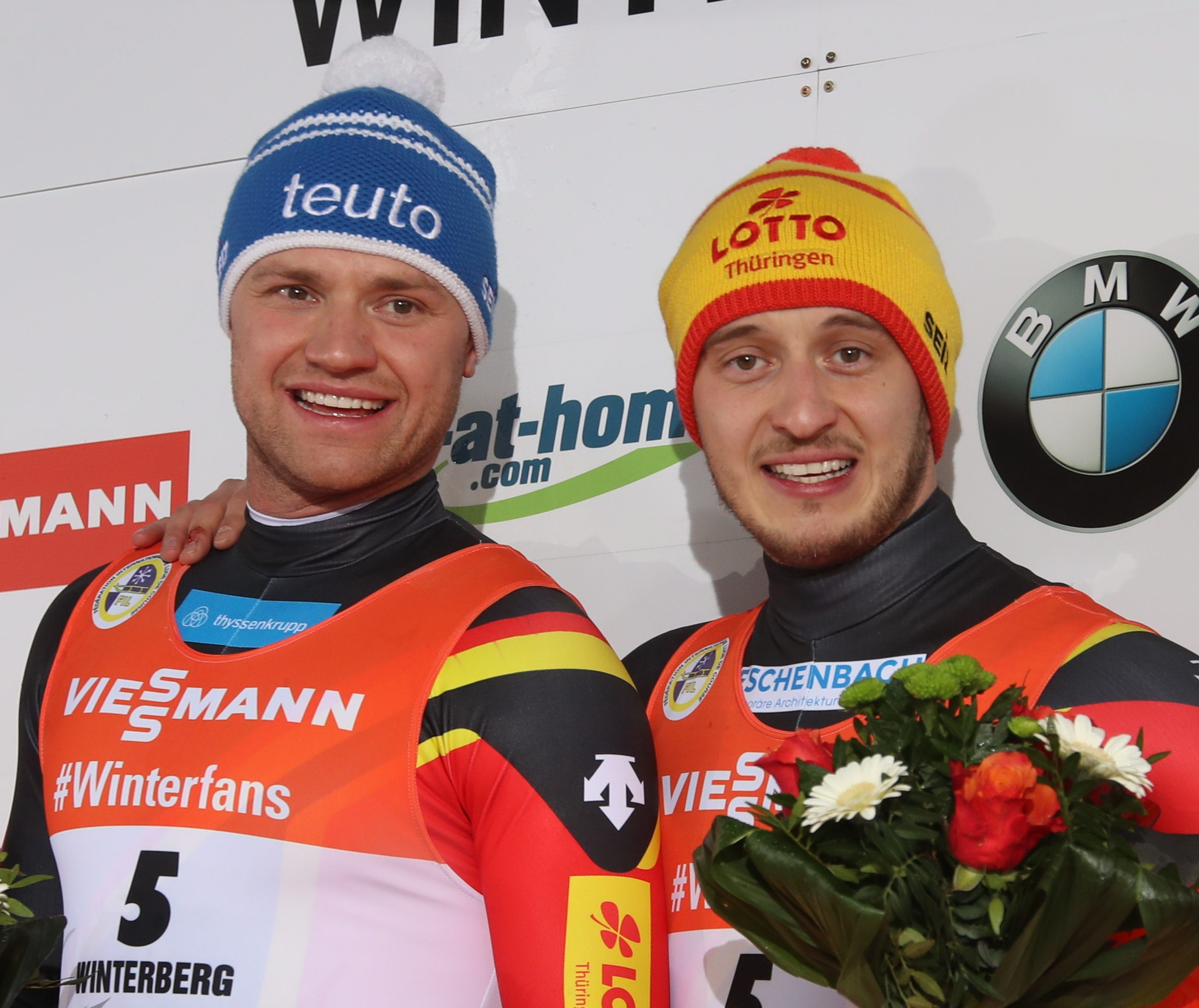 Doubles race at the FIL World Luge Championships 2019 in Winterberg